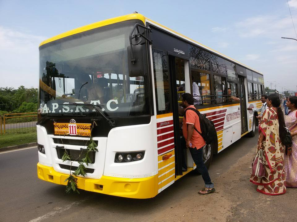 Visakhapatnam Metro Express Highway Service on its Inaugural Run at Kurmanapalem